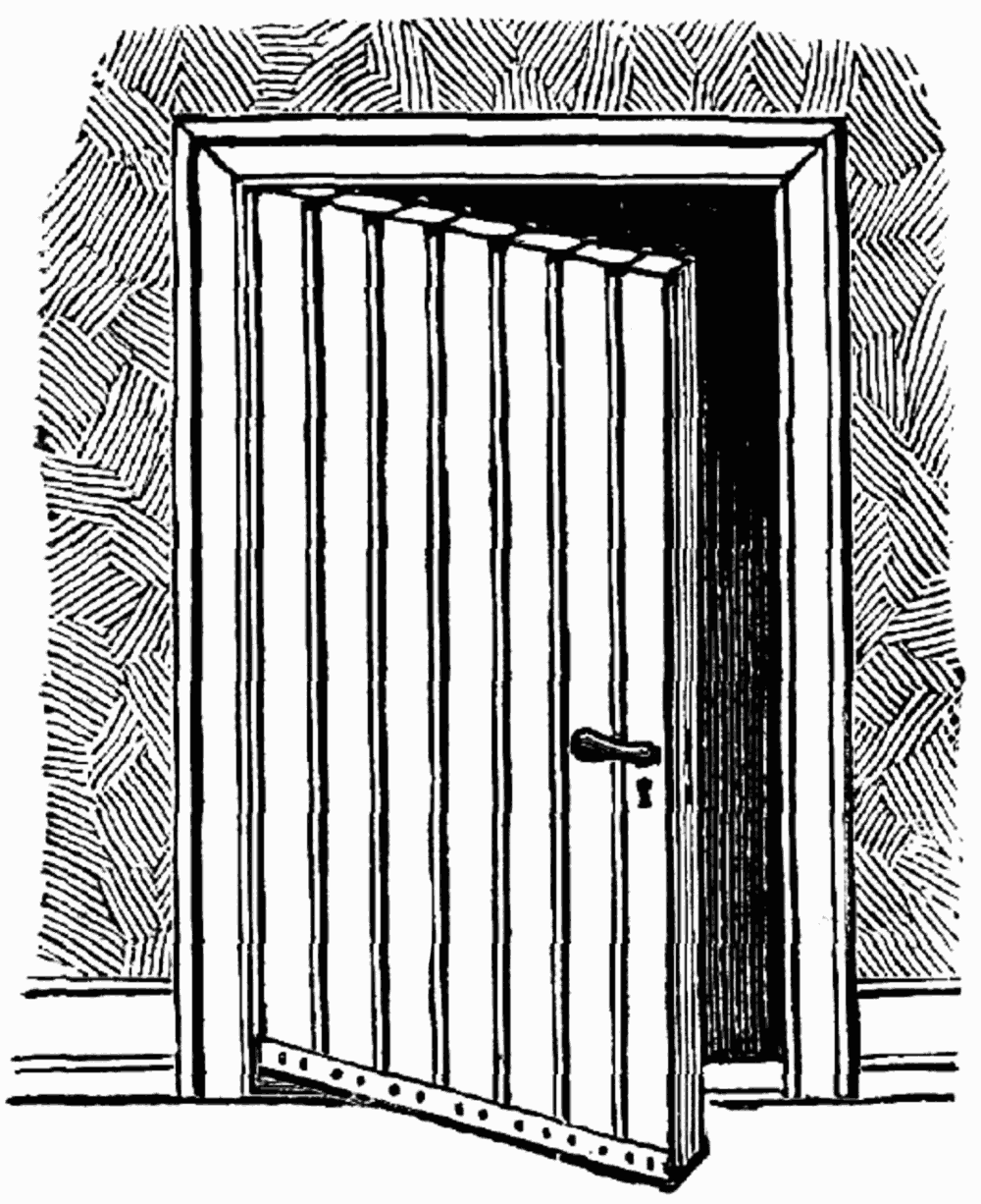 This image comes from the Lexikon der gesamten Technik (dictionary of technology) from 1904 by Otto Lueger.